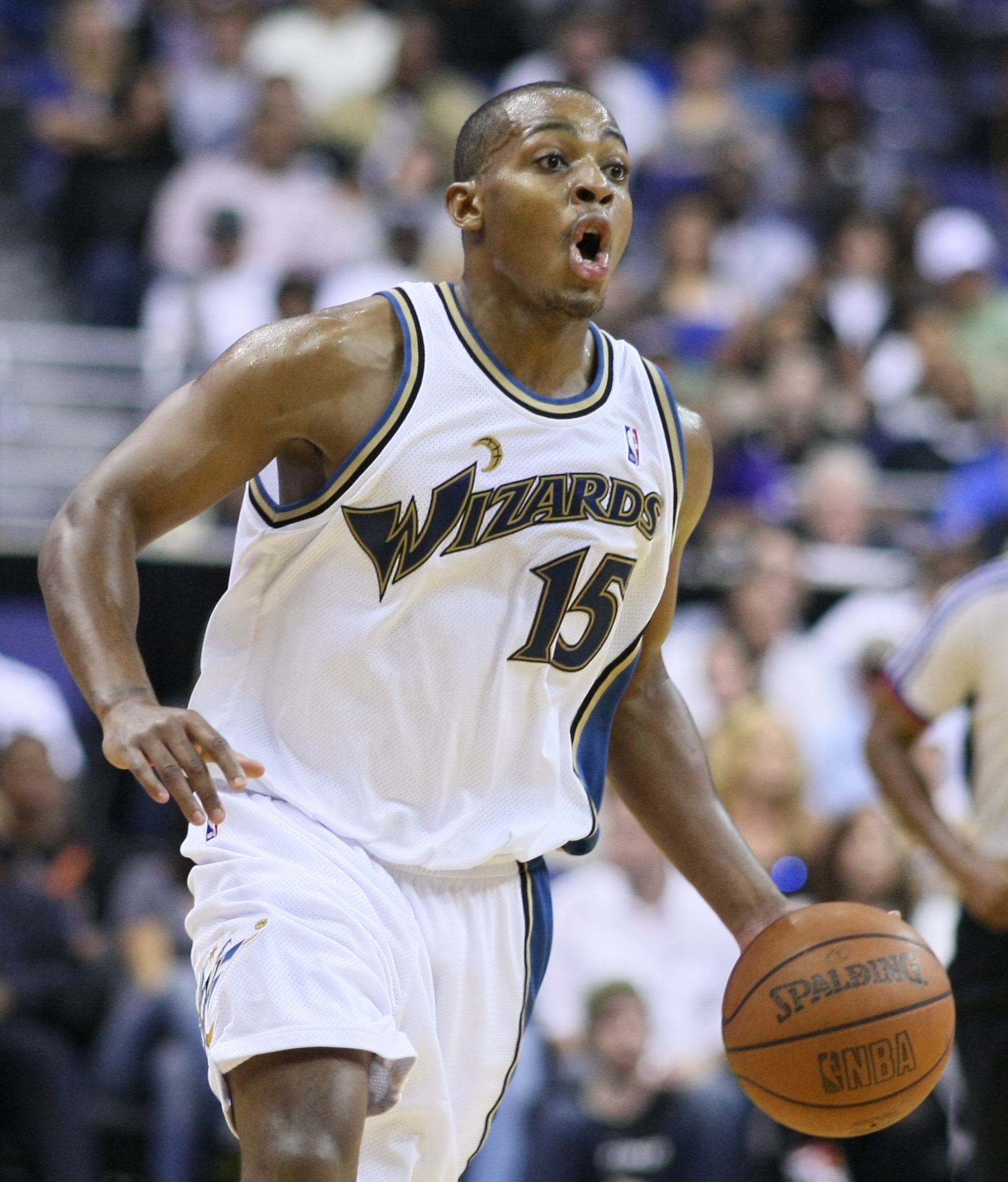 Washington Wizards v/s Dallas Mavericks October 9, 2009 at Verizon Center in Washington, D.C.